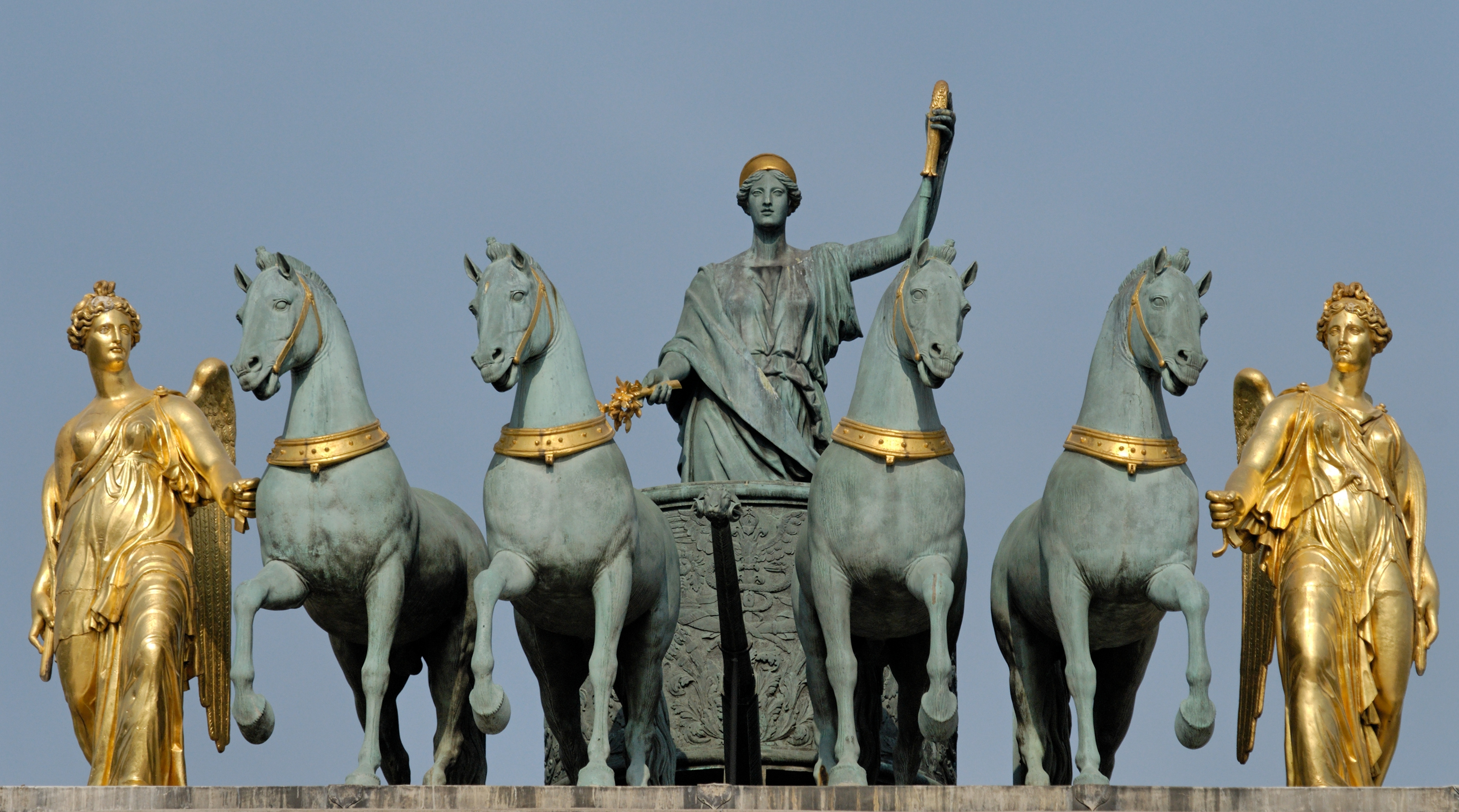 Peace riding in a triumphal chariot, by François Joseph Bosio (1768–1845). Bronze mould by Charles Crozatier, Arc de Triomphe du Carrousel, 1828. H. 3.5 m (11 ft. 5 ¾ in.).